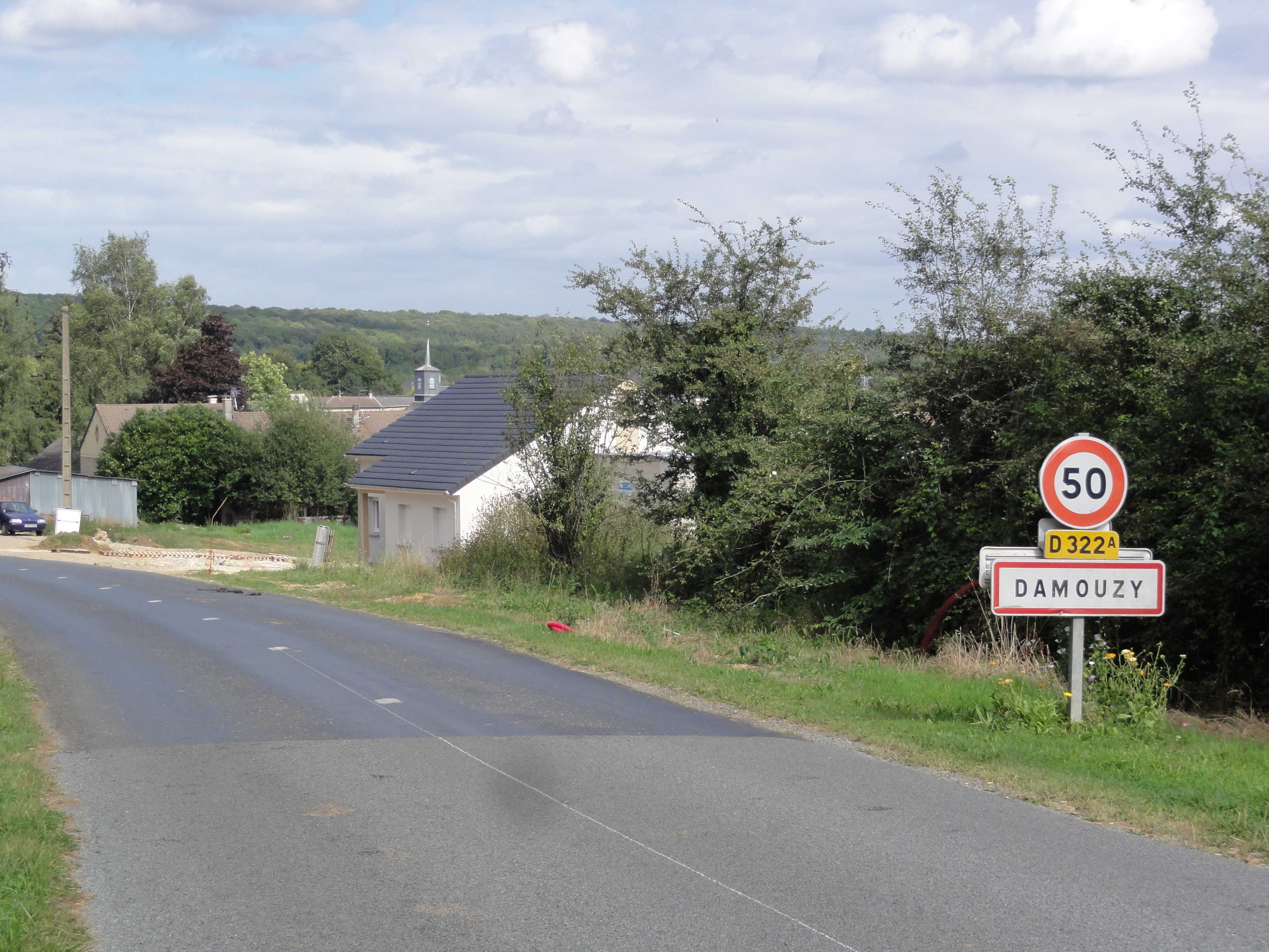 Damouzy (Ardennes) city limit sign